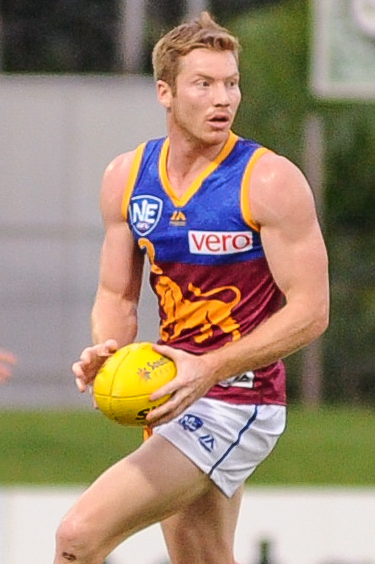 Ryan Harwood playing for Brisbane Lions reserves in April 2017